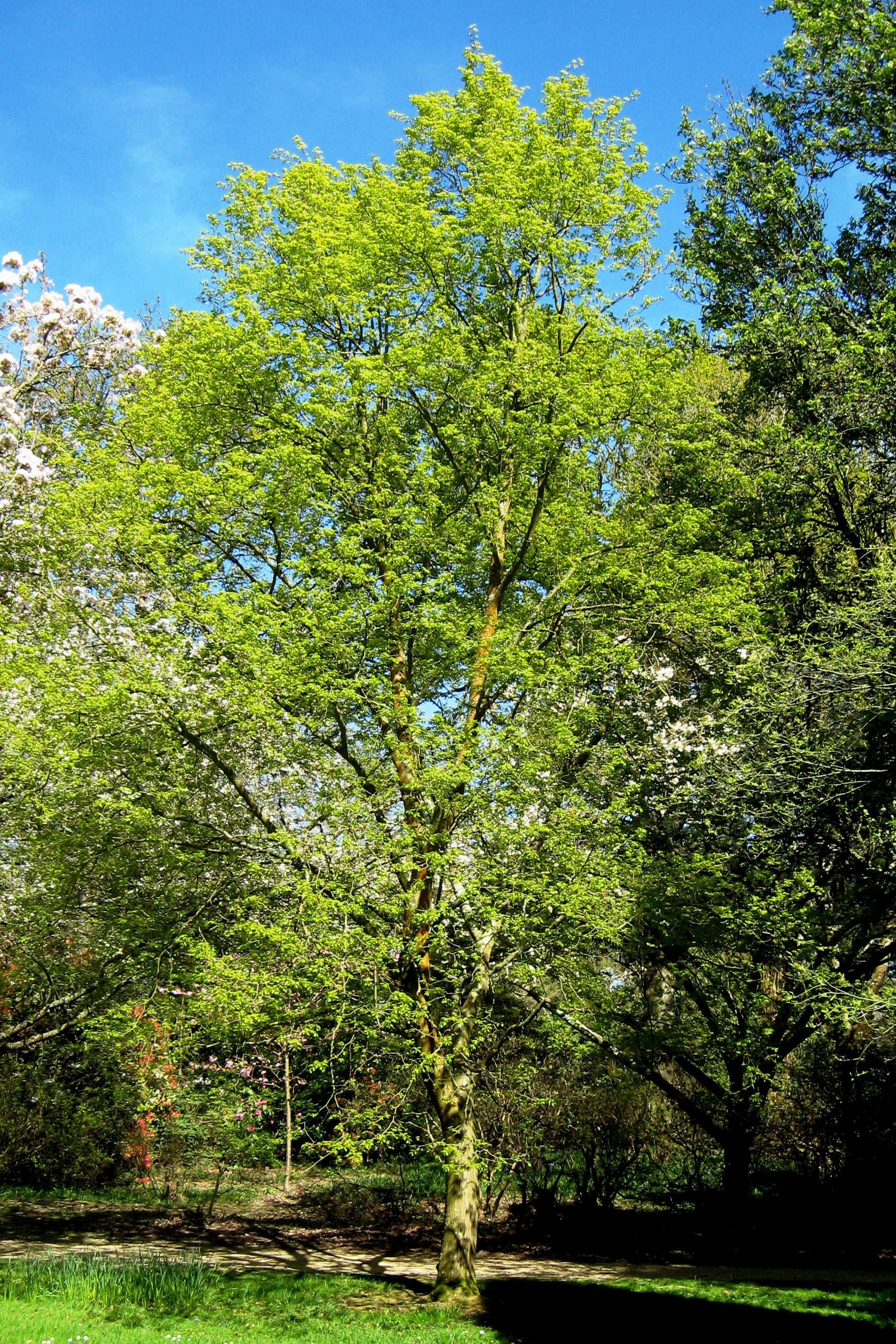 Photograph of Tilia mongolica taken at Exbury Gardens, UK, May 2013.